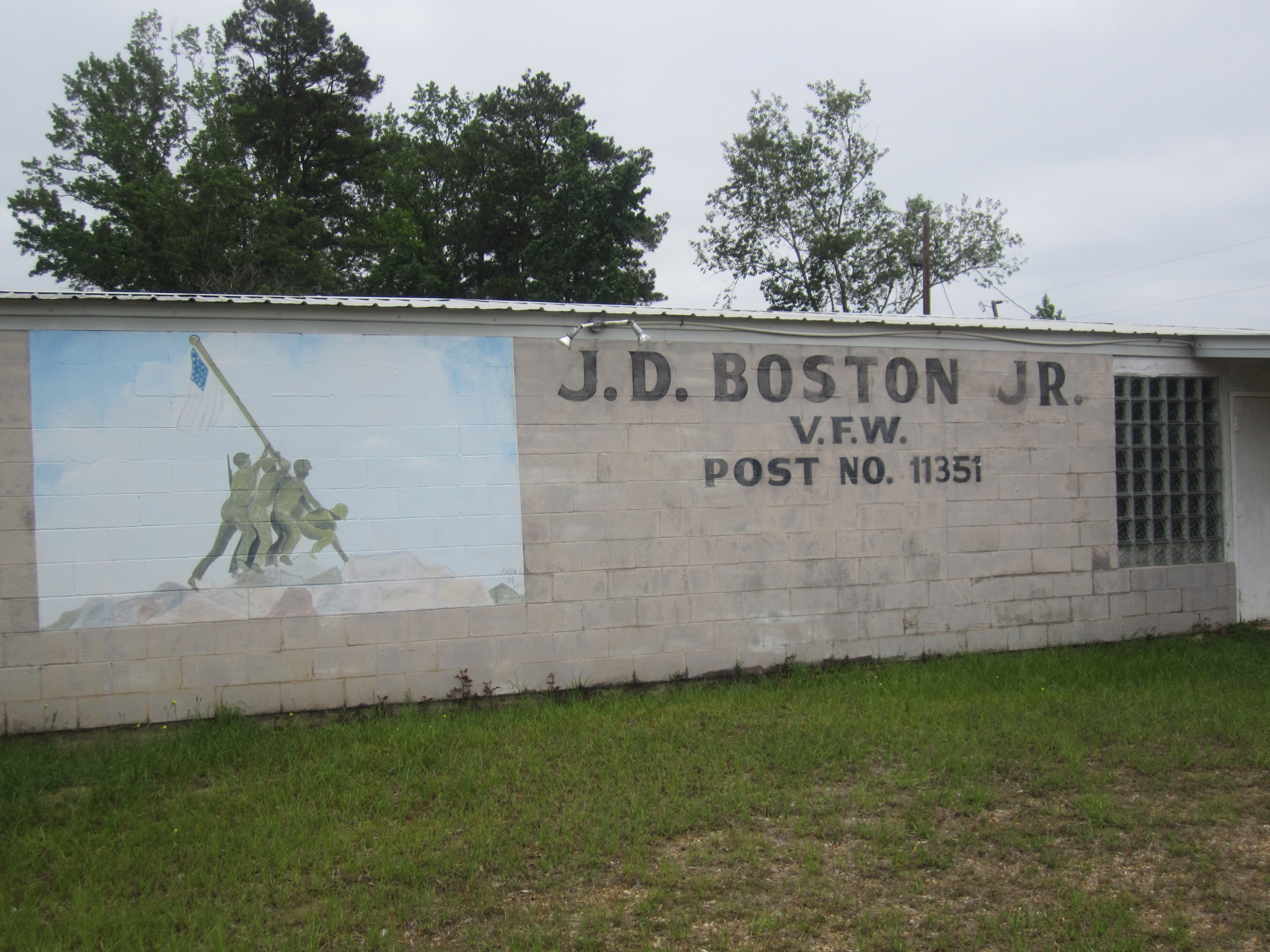 I took photo with Canon camera of J.D. Boston VFW Post in Montgomery, LA.